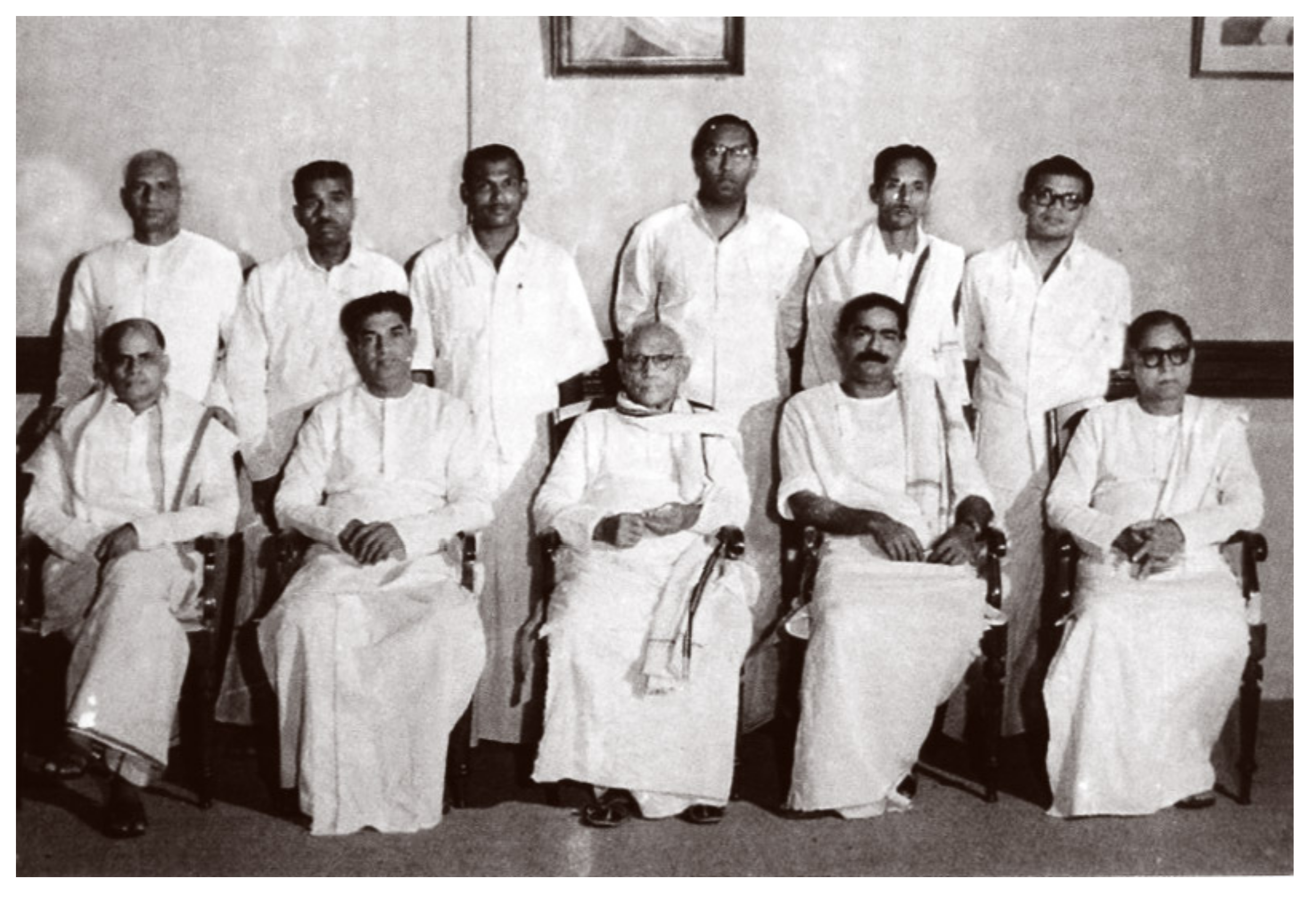 Kerala Ministry Members from Second Assembly Election